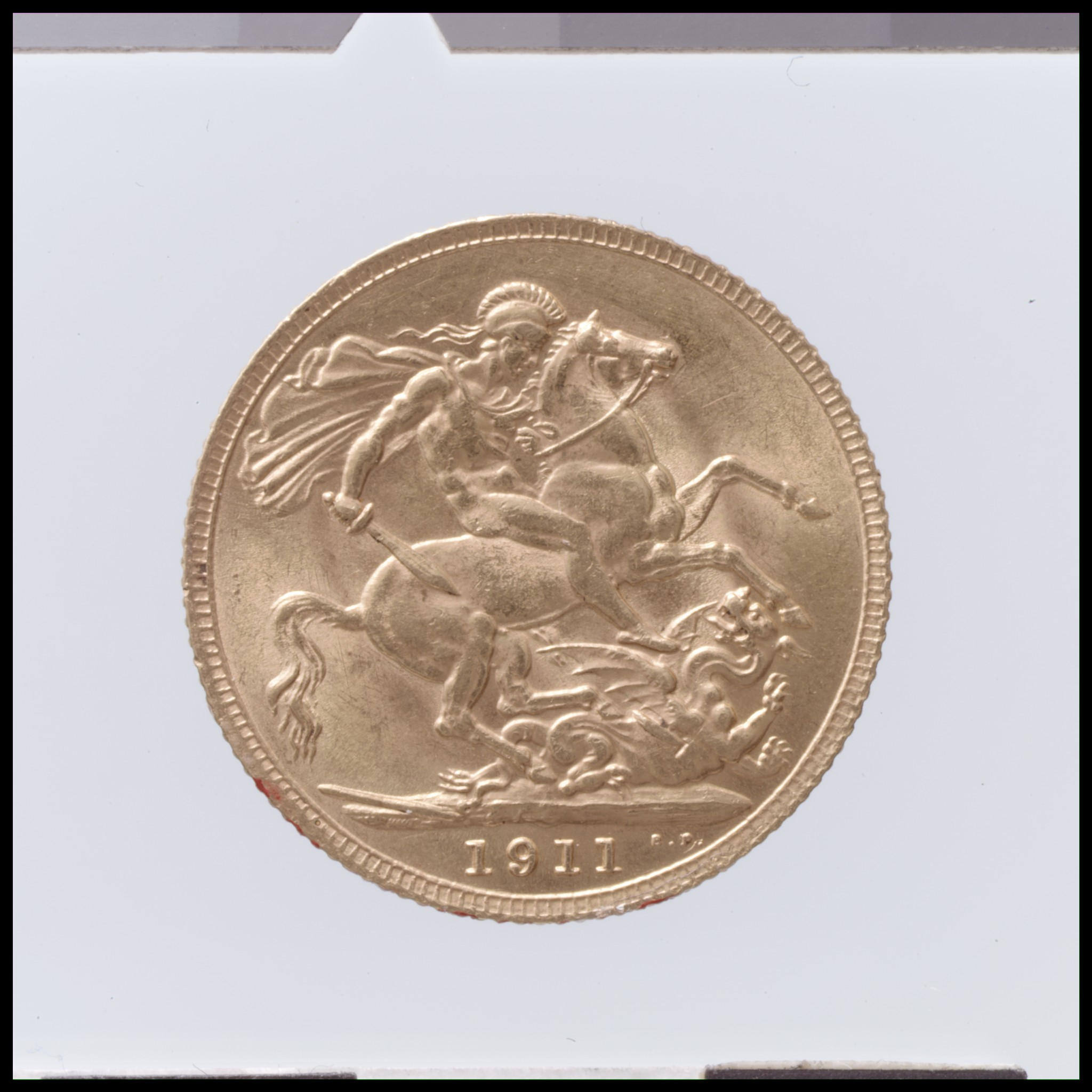 British; Sovereign; Coins